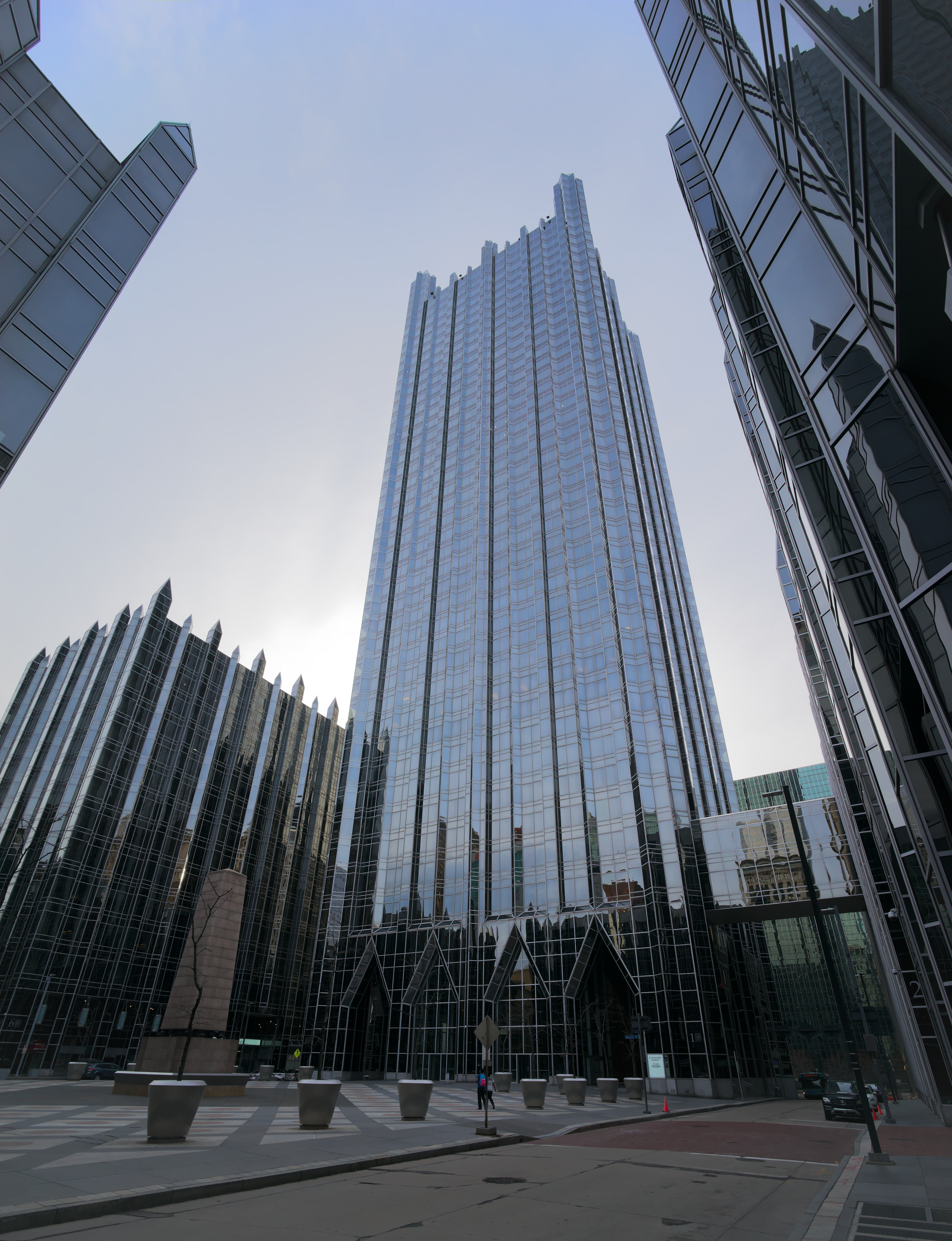 PPG Place is a complex of six buildings in Pittsburgh, of which the One PPG Place (center) is the tallest.